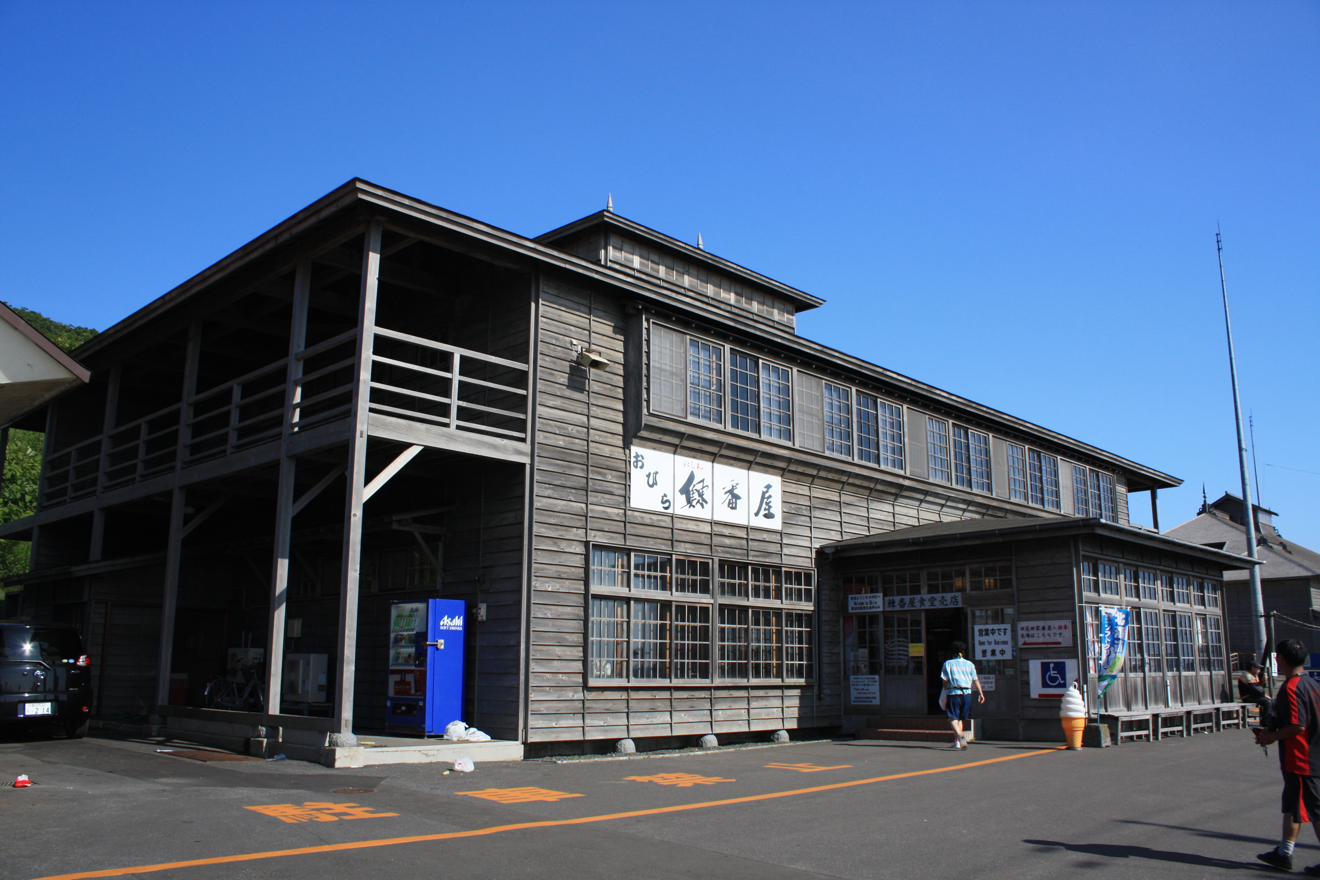 Michinoeki Obira Nishinbanya on the Japan National Route 232 in Obira Town, Hokkaido, Japan